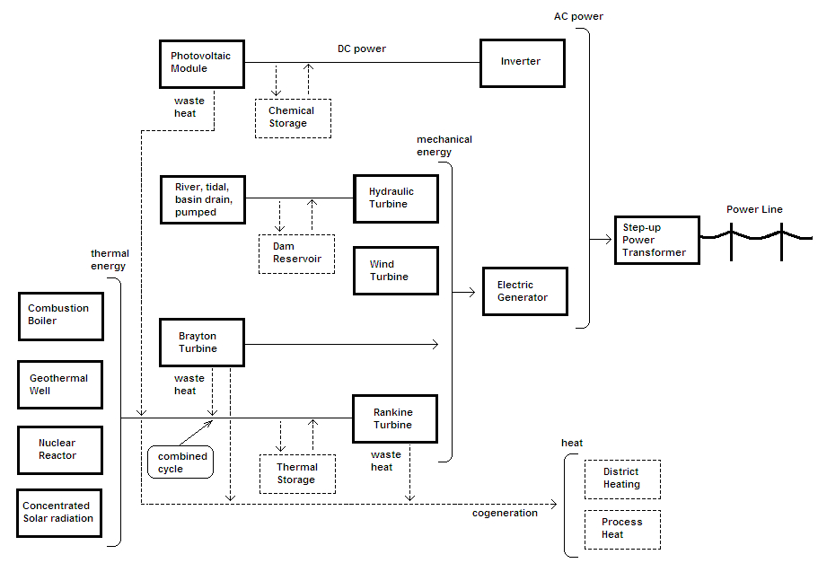 A block schematic of different types of power stations